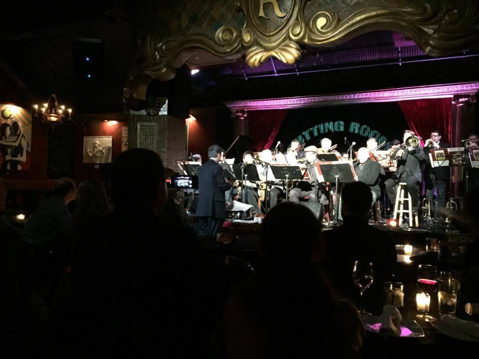 Cutting Room premiere in New York of Mist: Charles Ives for Jazz Orchestra CD